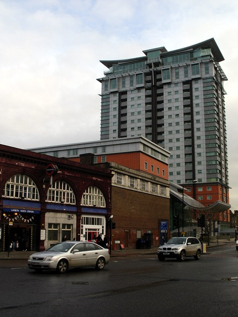 Lambeth North Underground station and Century House Looking across Westminster Bridge Road to Lambeth North Underground station and, to the southeast, Century House. Now an apartment block, this was formerly the home of the SIS (MI6).